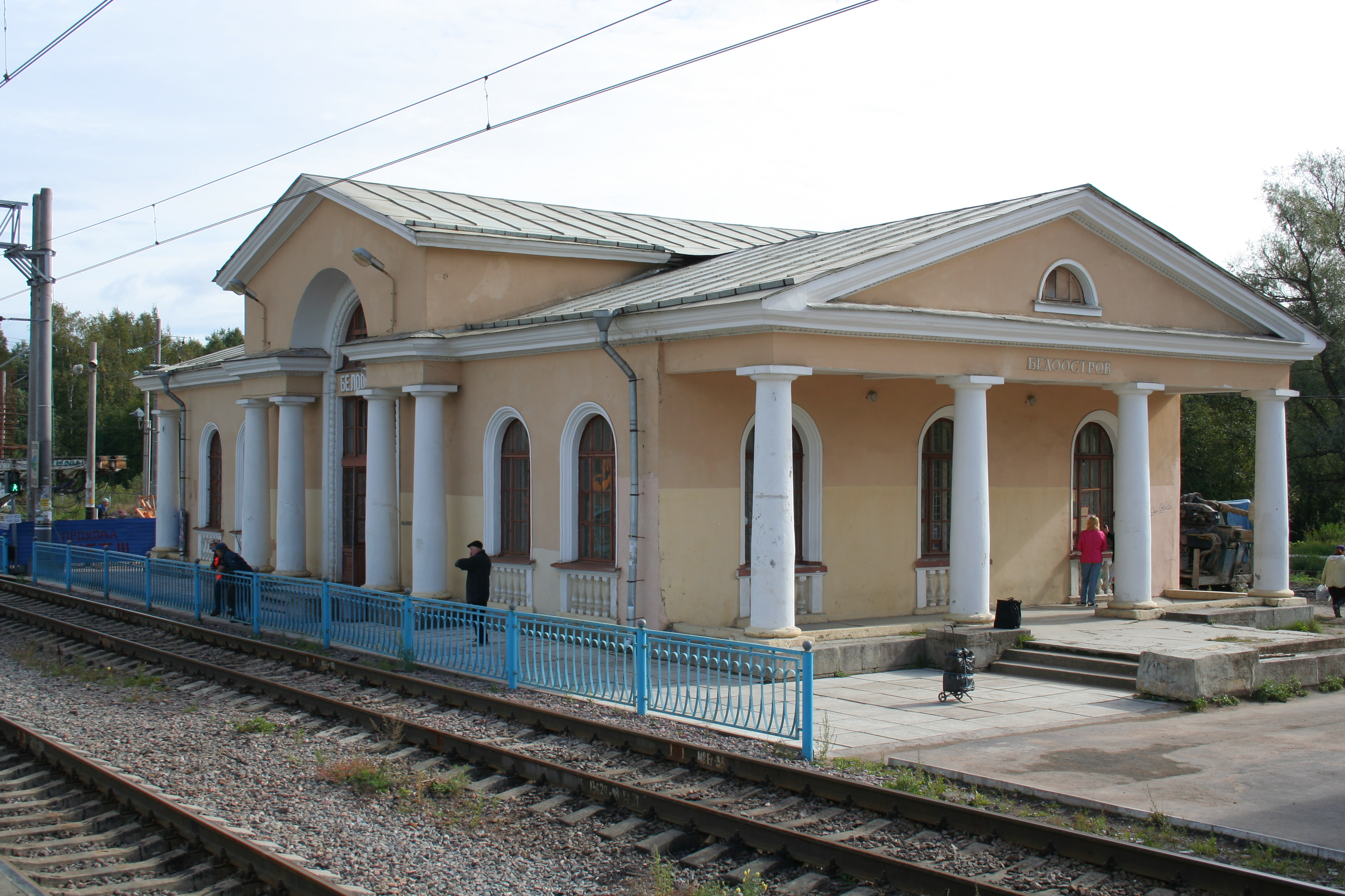 Saint Petersburg, Beloostrov train station